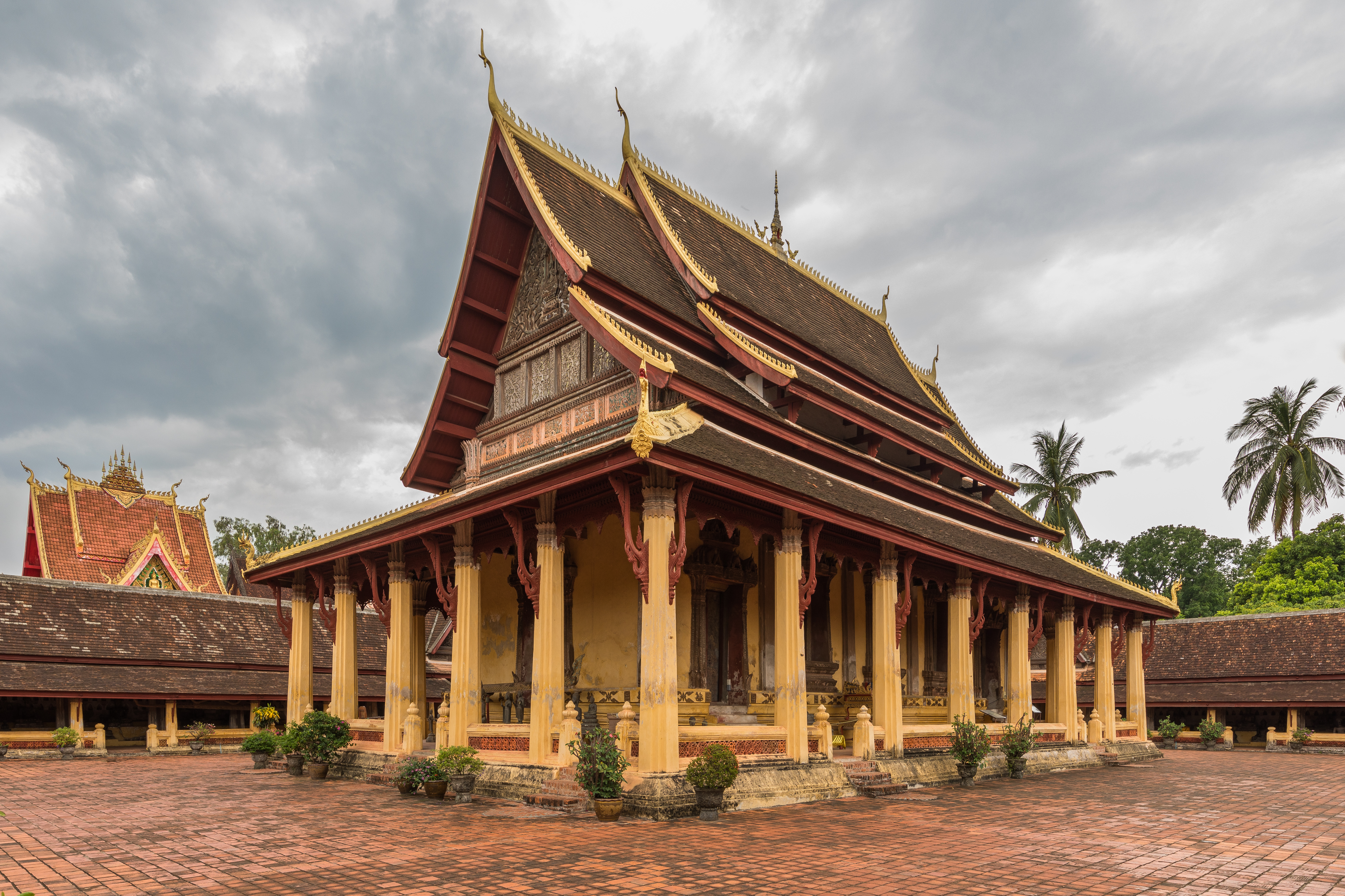 Wat Si Saket Buddhist temple in its paved courtyard, under a stormy sky. Oldest temple of Vientiane (capital of Laos), it was built between 1819 and 1824.